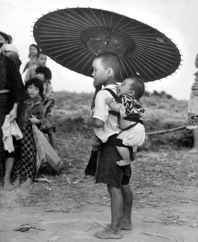 Okinawan civilians during the Battle of Okinawa.